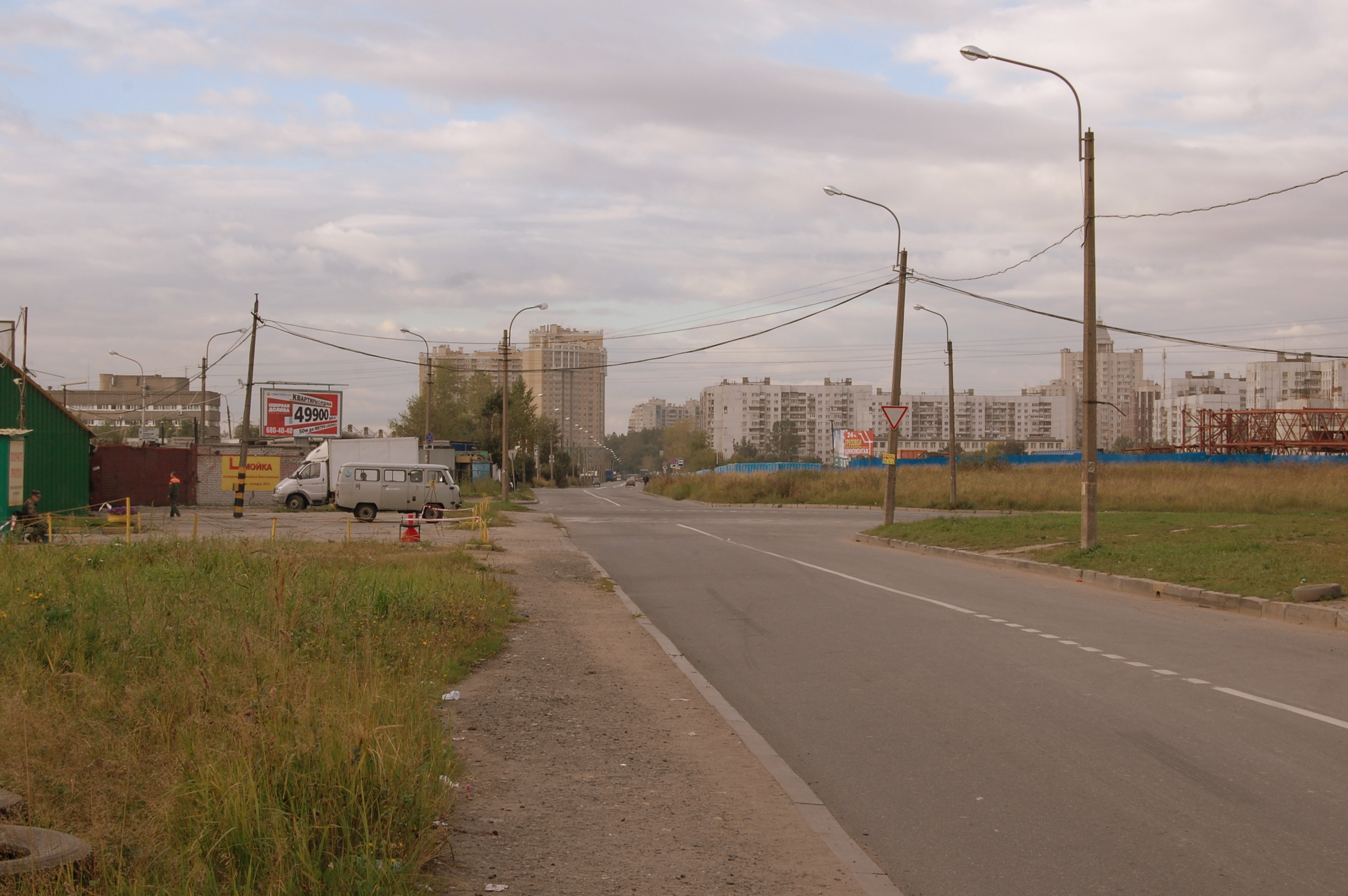 5th Predportovy Lane crossing the Kubinskaya Street (Saint Petersburg)